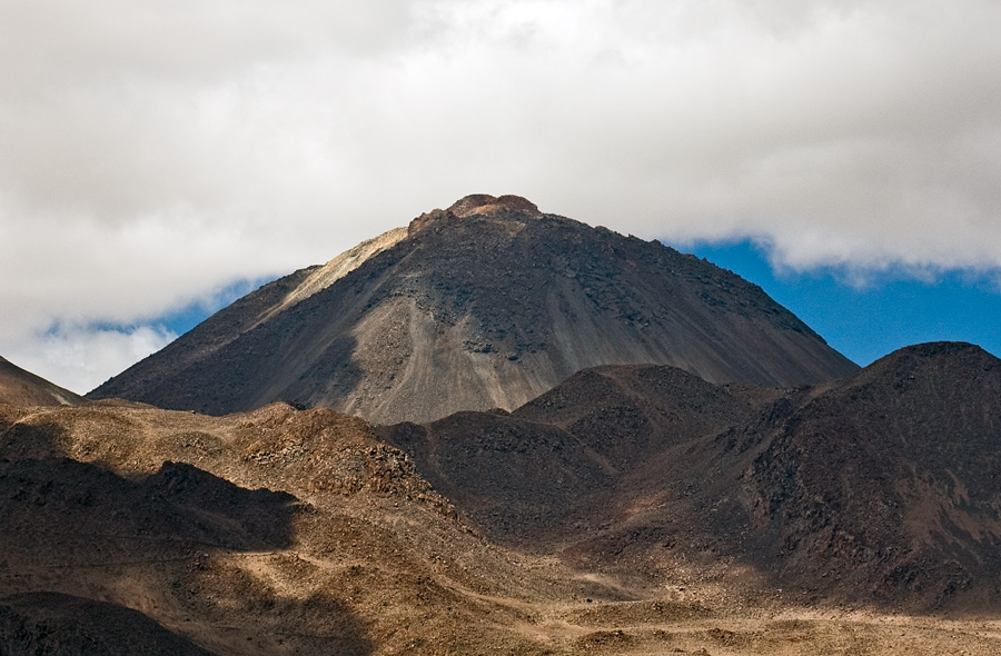 The Sairecábur Volcano gives its name to a volcanic group with a length of 12 km. aprox., and stretches from the Escalante Volcano on the north, to Sairecábur on the south of the complex.